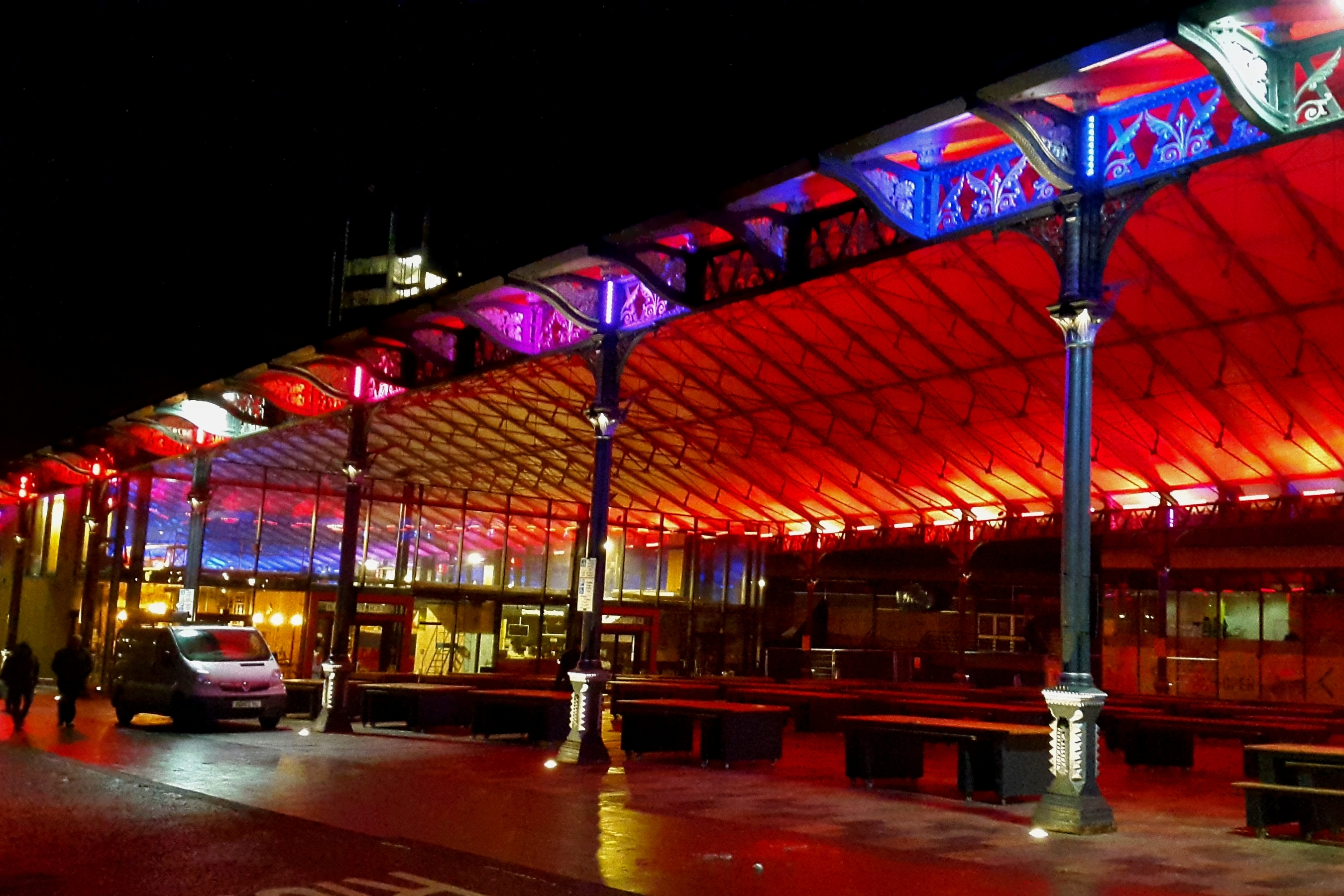 Preston Market Hall and Outdoor and Secondhand Markets at night.